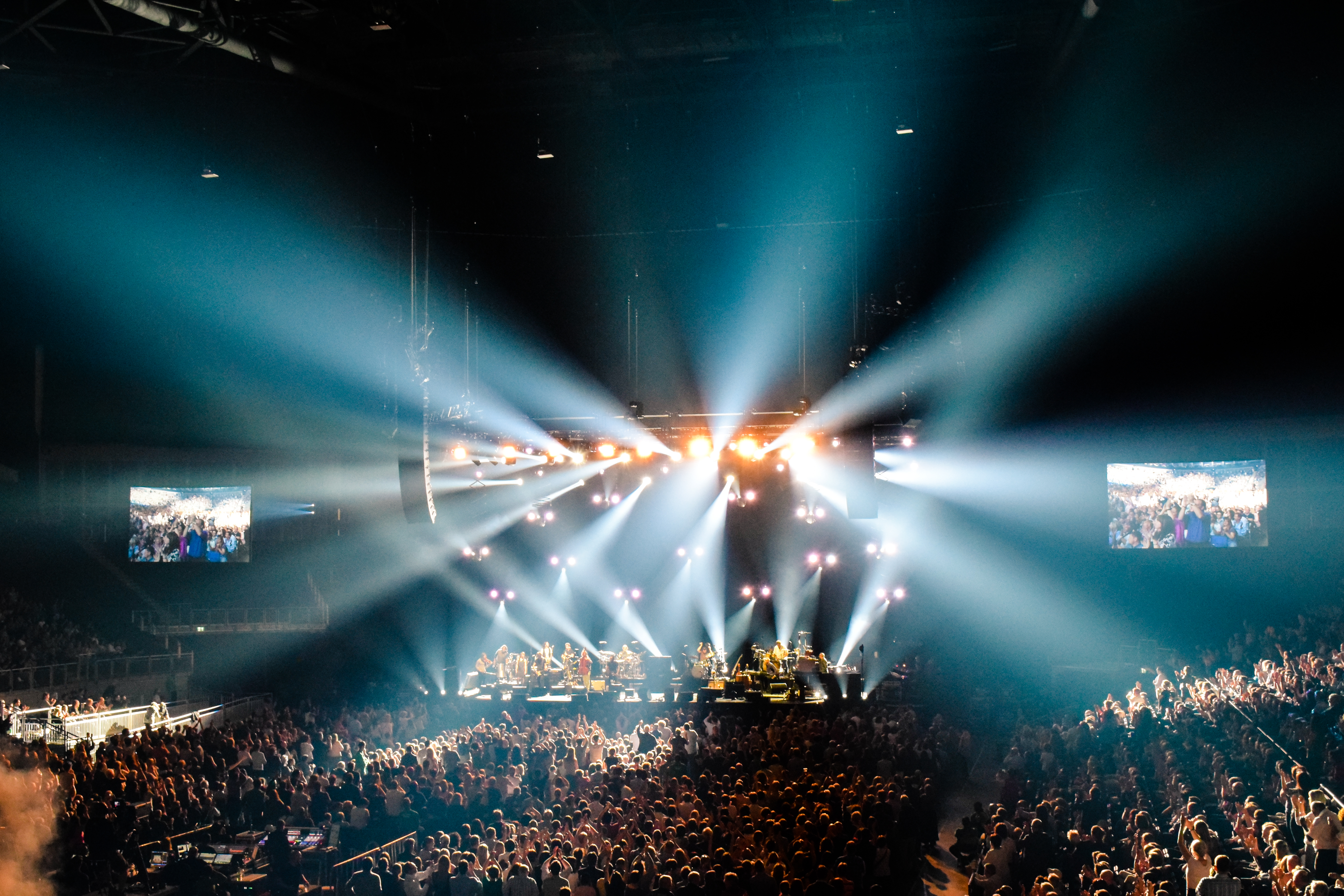 Concert for Paul Simon & Sting at the O2 arena in London. Part of their world tour.